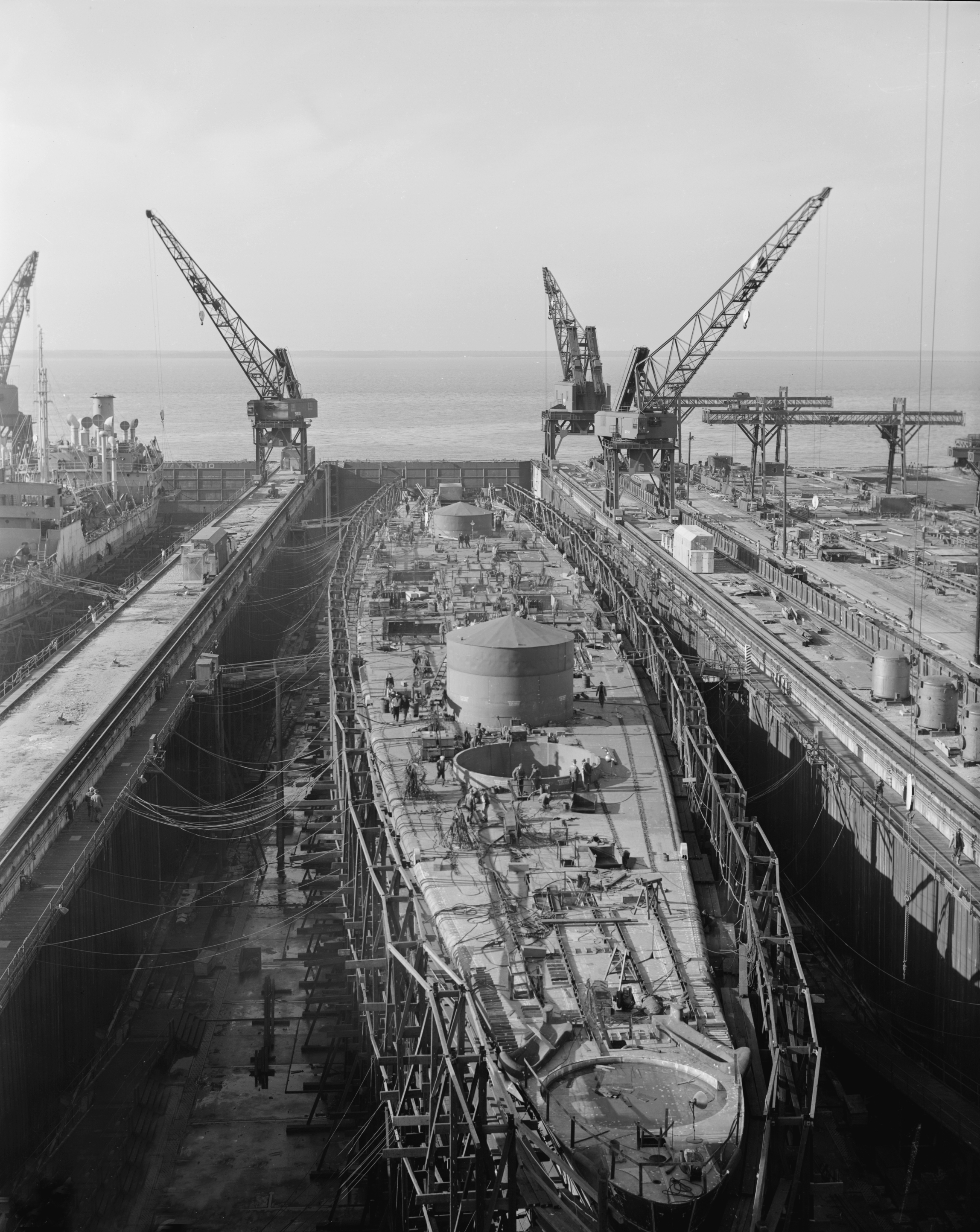 The U.S. Navy heavy cruiser USS Newport News (CA-148) under construction at the Newport News Shipbuilding & Dry Dock Company, Newport News, Virginia (USA), on 8 January 1947. The cruiser was launched on 6 March 1948 and commissioned on 29 January 1949.